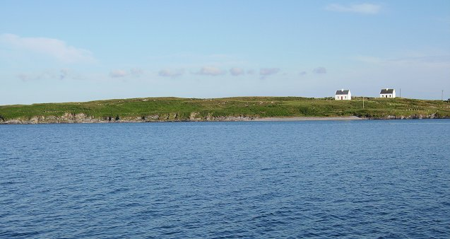 Long Island Famed for its rowers, this , well, long island guards the entrance to Skull harbour. Taken from the sound between the mainland and the island.